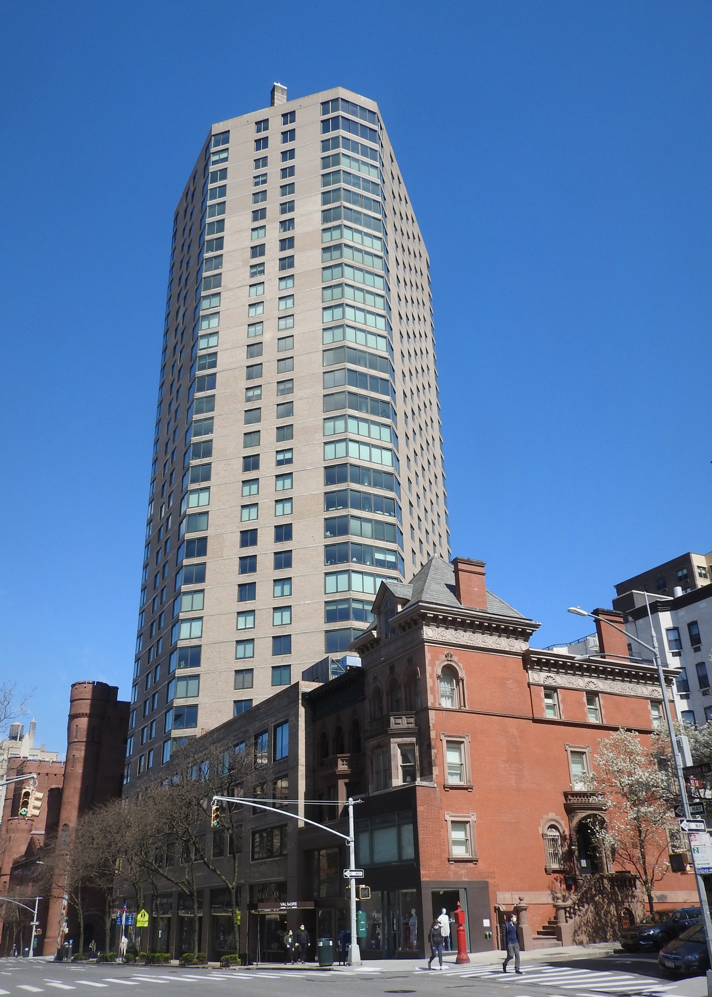 Looking northeast across Madison Avenue on a sunny day